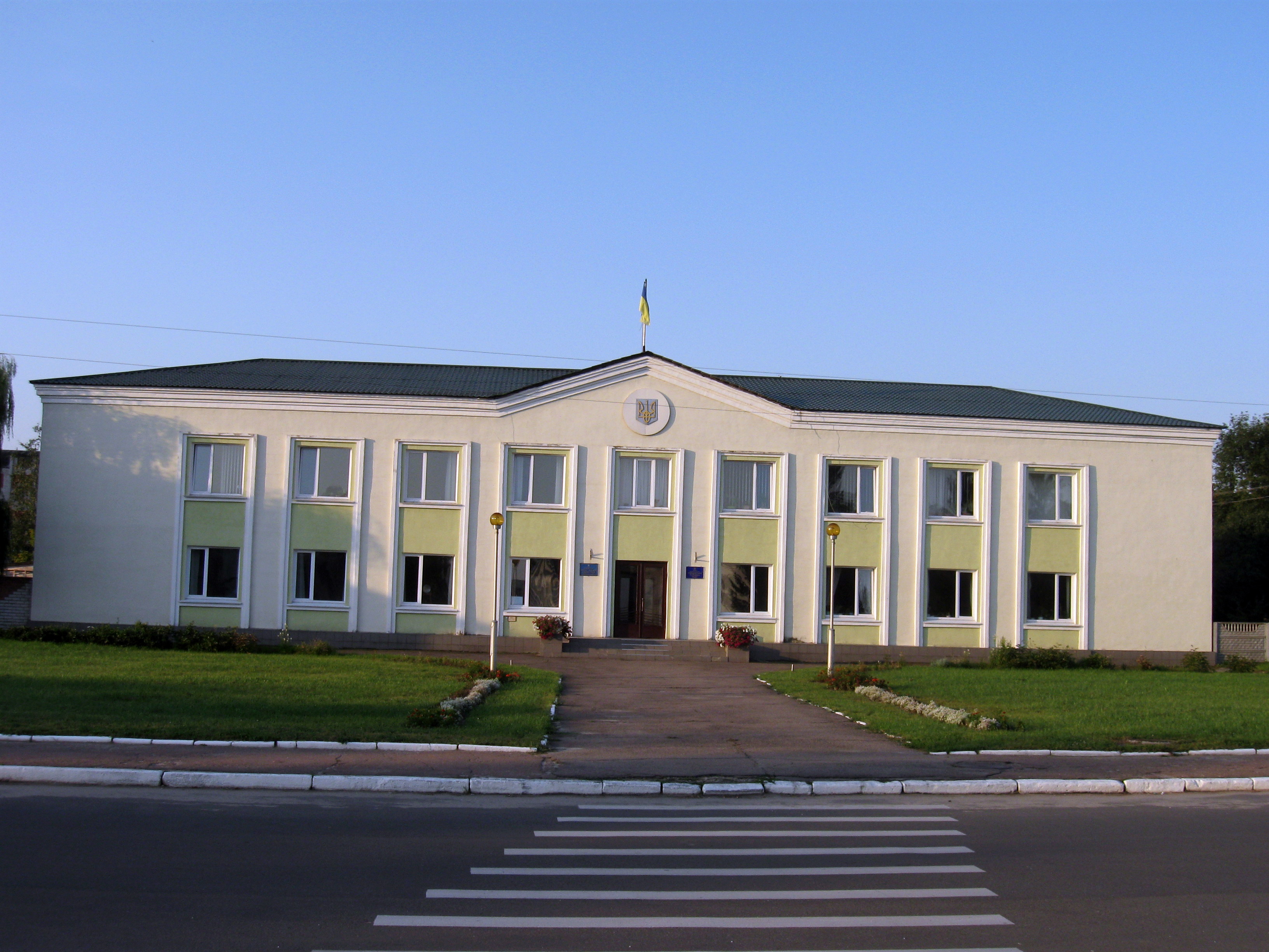 District Council of Ripchanskyi Raion